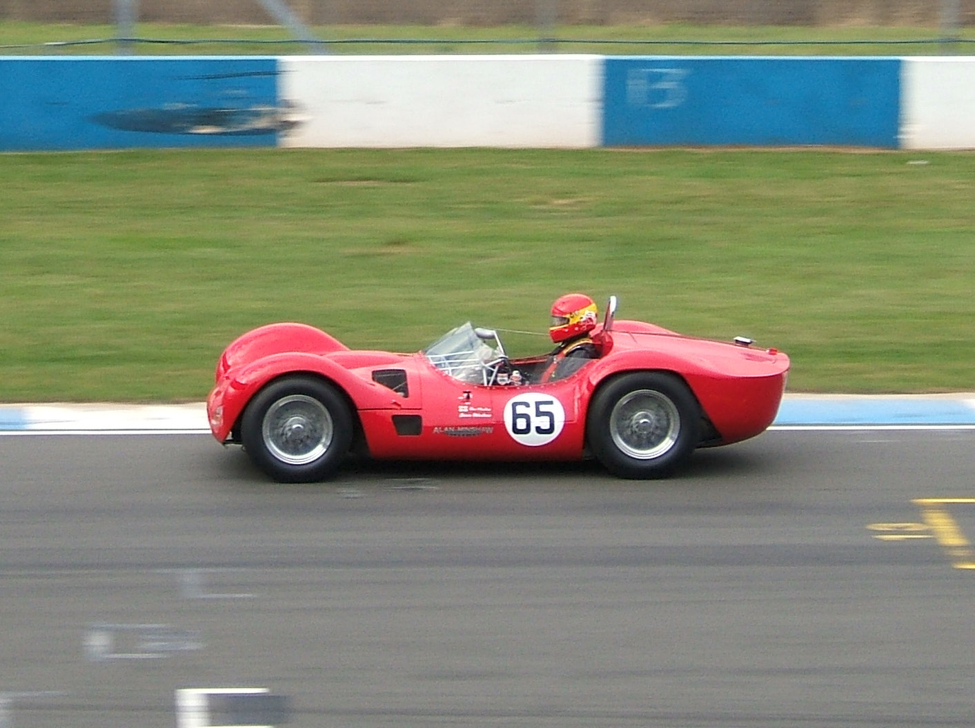 Alan Minshaw accelerates hard in his Maserati Tipo 61, on the Wheatcroft Straight during the VSCC SeeRed race meeting, Donington Park, September 2007.